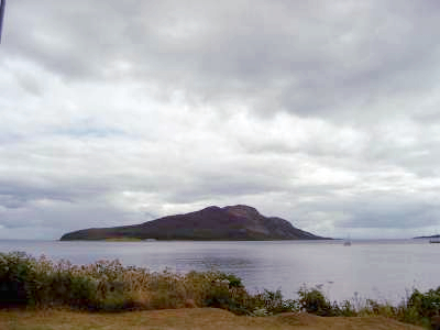 Holy Isle, Firth of Clyde seen from Arran.